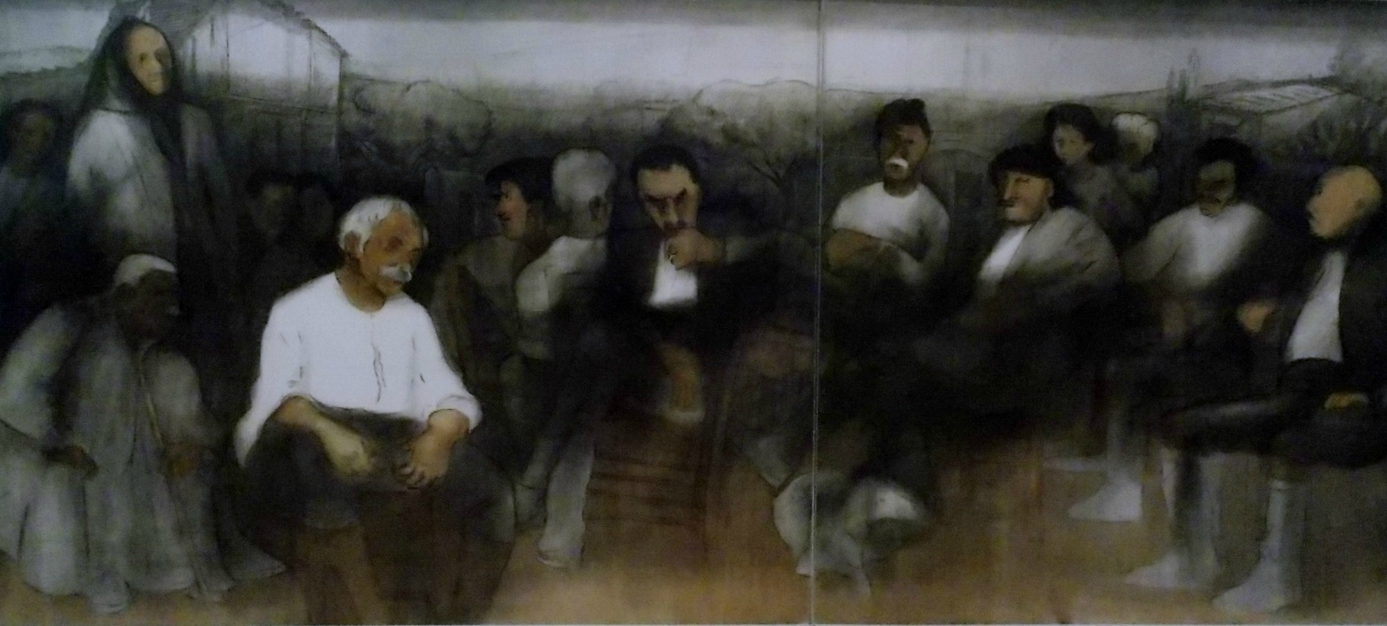 Leventis Gallery, Nicosia, Cyprus. Adamantios Diamantis - The World of Cyprus, part 2.